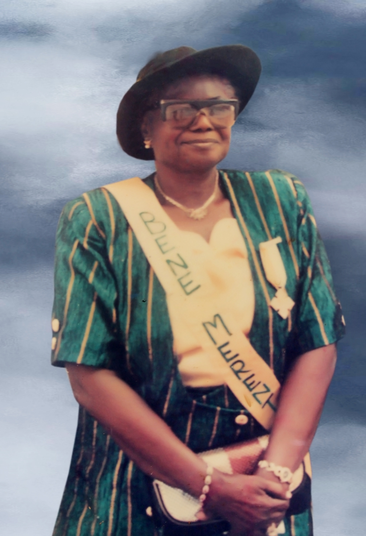 Dame Maria Amieriye Osunde on the conferment of the Bene Merenti Medal